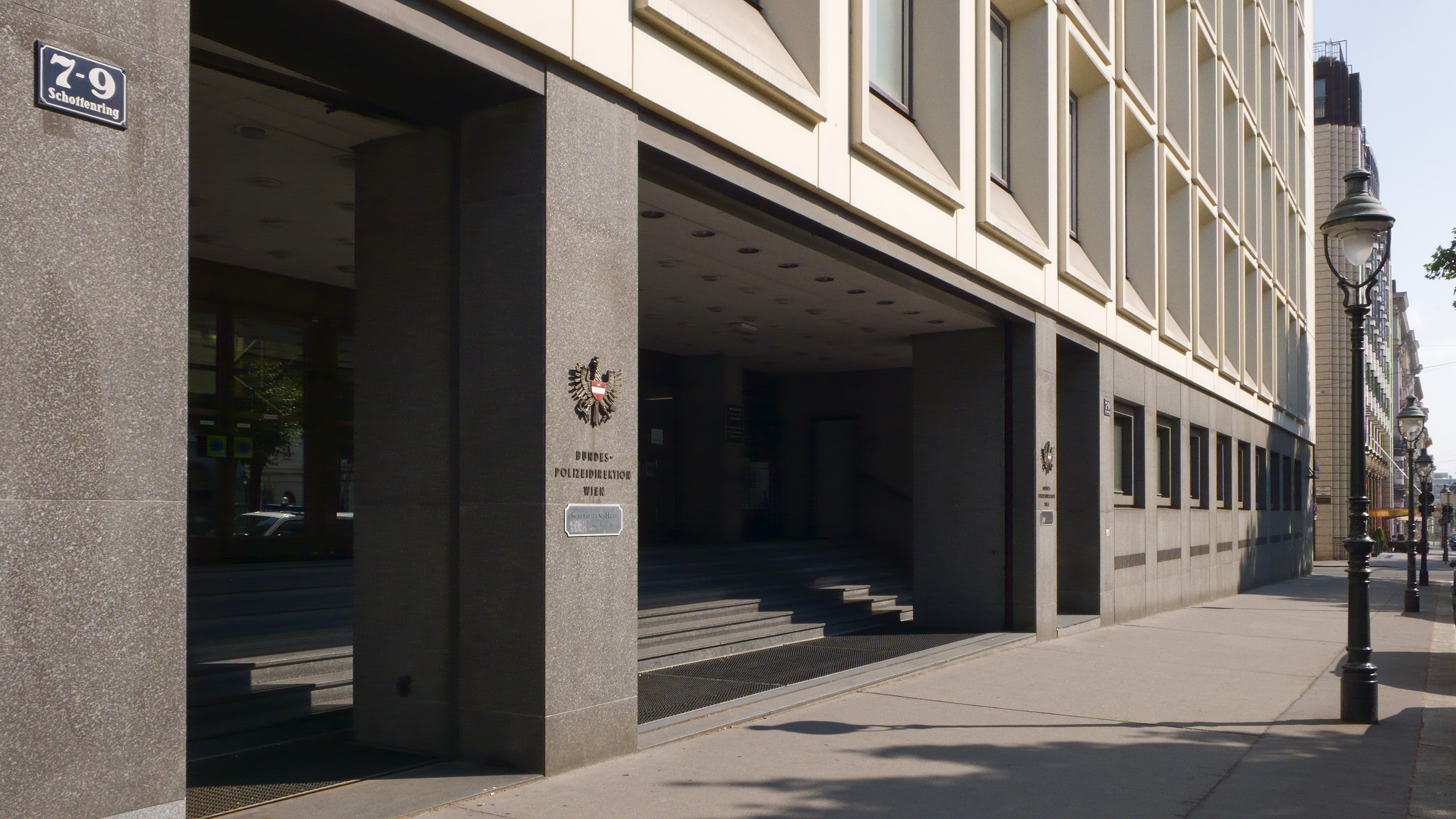 Police headquarters Polizeidirektion Wien (Schottenring 7–9) in Vienna Innere Stadt